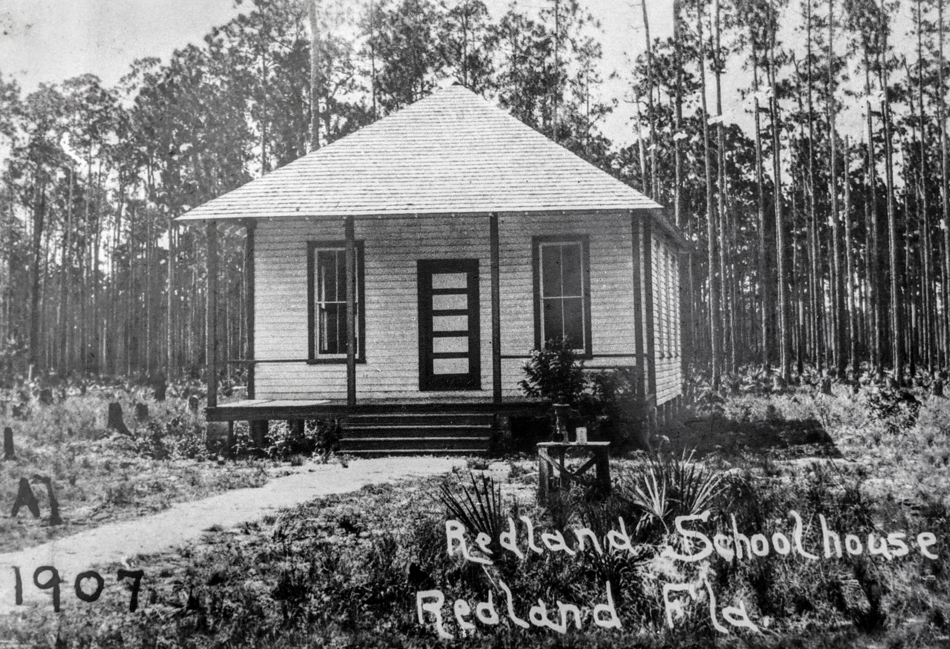 The newly constructed Redland Schoolhouse in Redland, Florida, in 1907